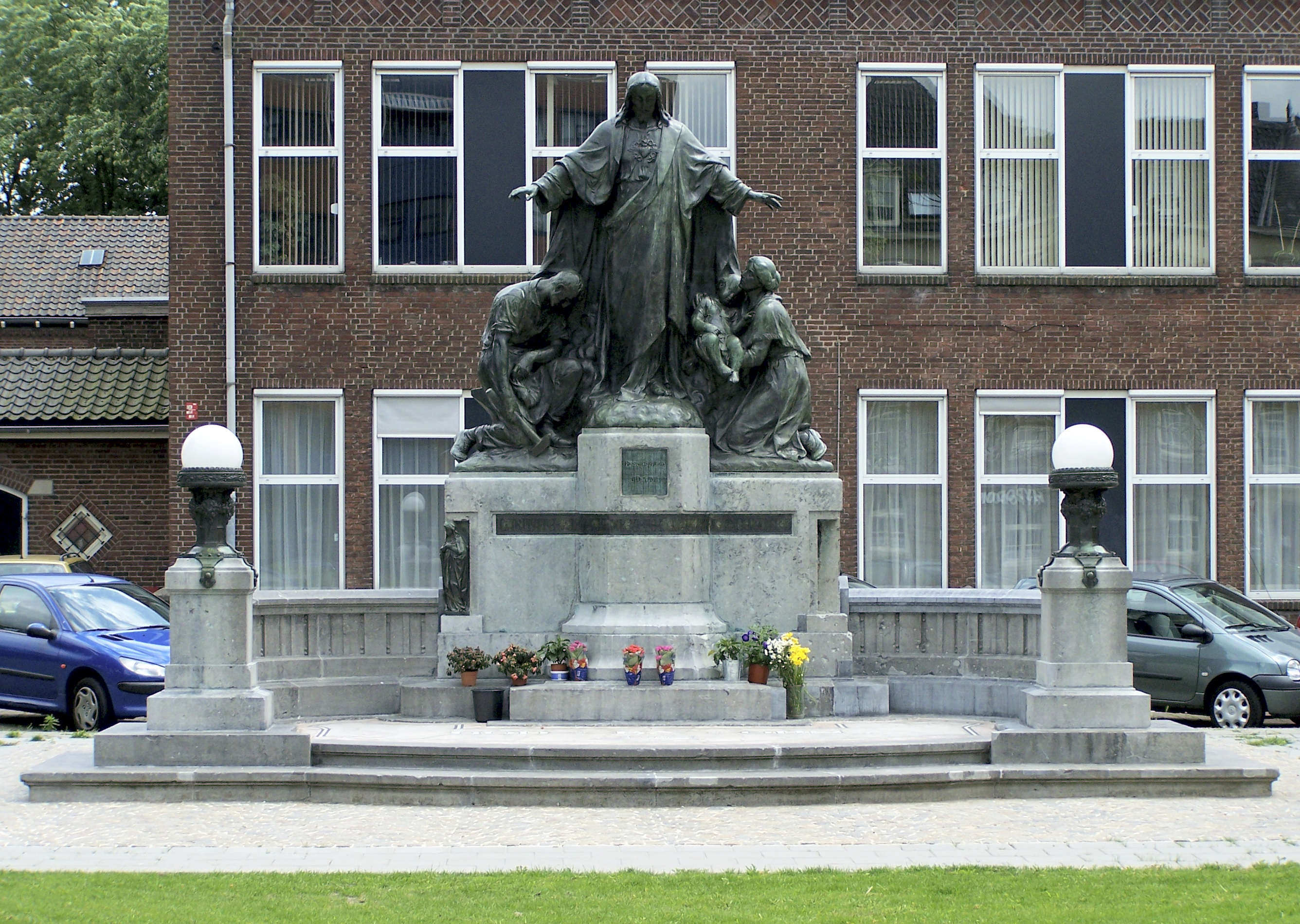 Sculpture of the Sacred Heart. Placed at the Julianaplein in 1925, since 1939 at the Emmeplein in 's-Hertogenbosch. Designed by Dorus Hermsen and made by Aloys de Beule.